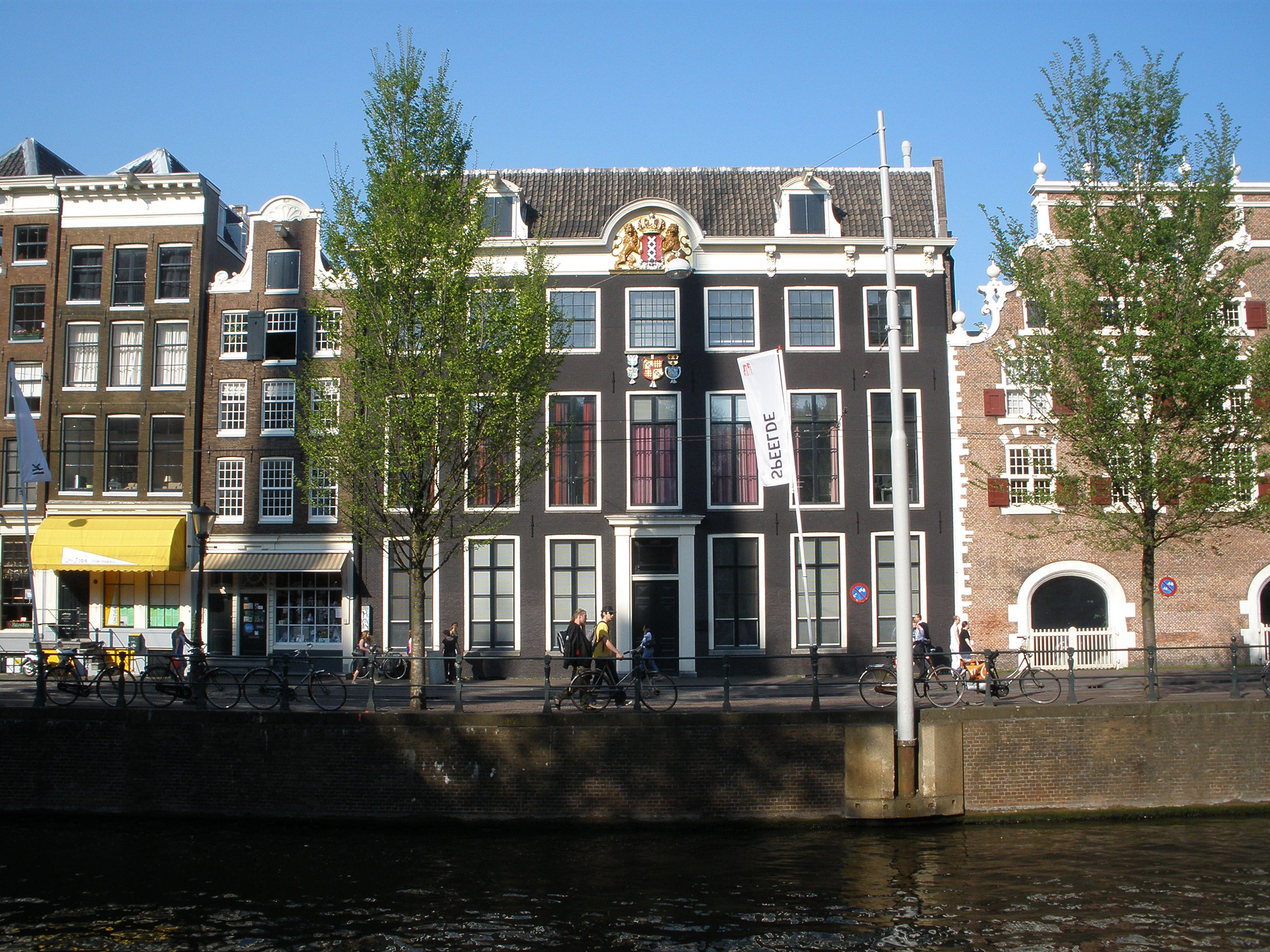 The Handboogdoelen, now part of the library of the University of Amsterdam complex on the Singel canal in Amsterdam. On the right, part of the Stads-Bushuis (the former city arsenal) can be seen.